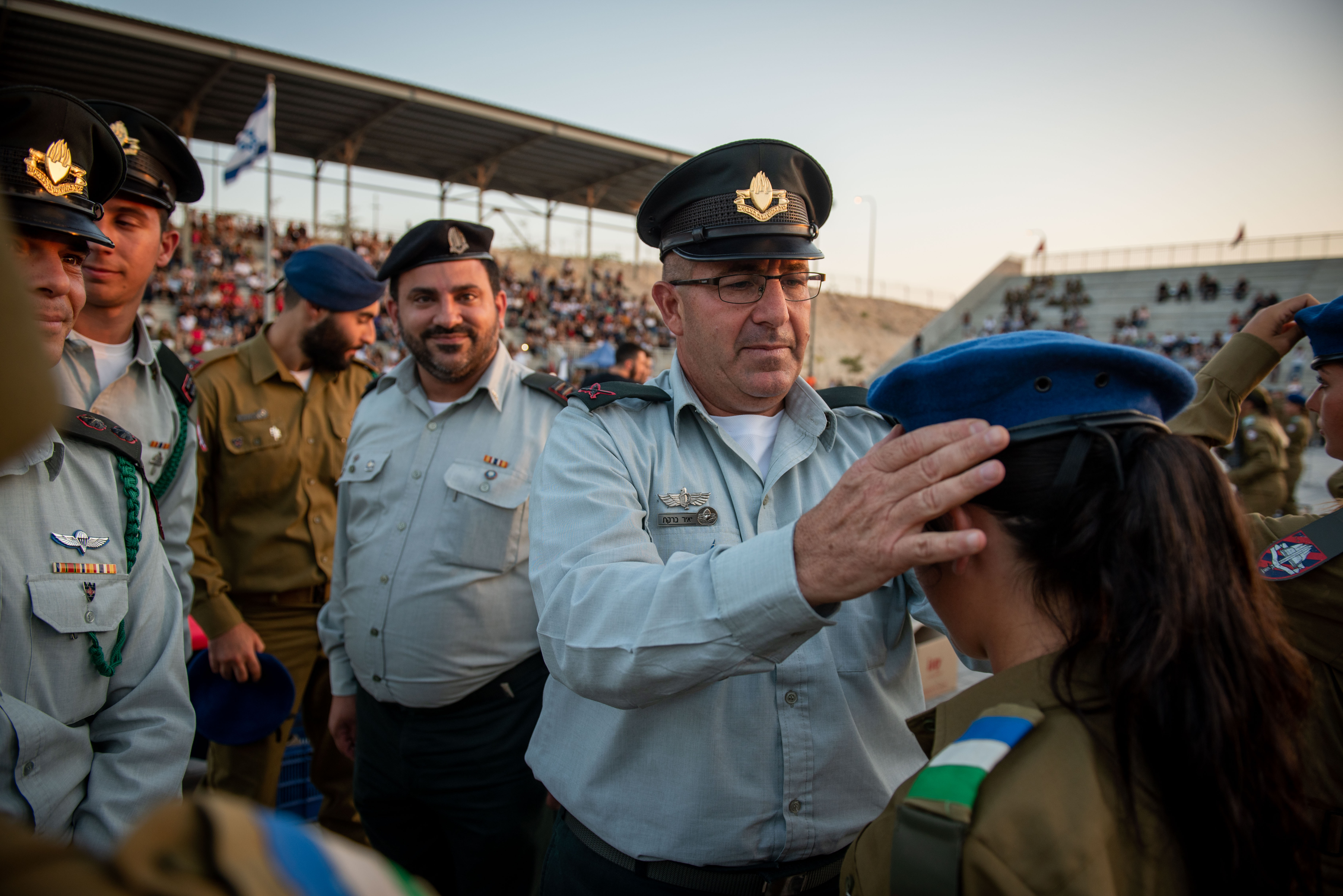 Depicted person: Yair Barkat